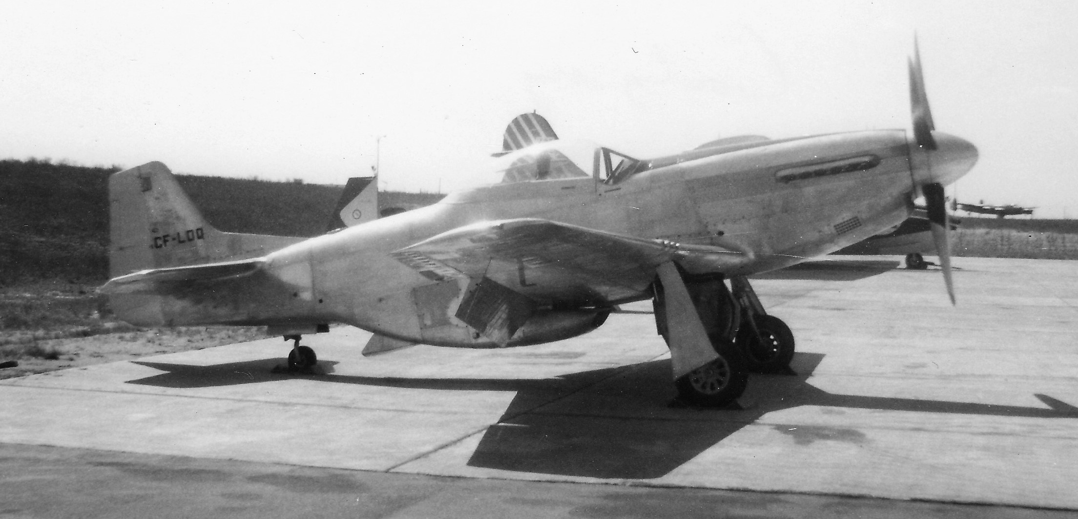 Lynn Garrisons Mustang CF-LOQ McCall Field, Calgary 1962. Note Garrison's Lancaster Memorial in distance behind spinner.